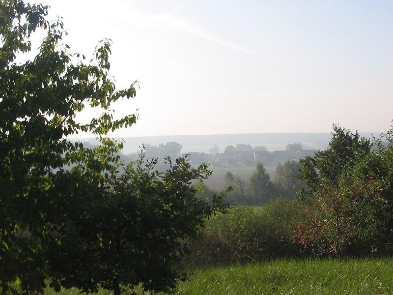 View from the Hagelberg (mountain) to Klein-Glien in the October-fog. The village Hagelberg is a part of the town Belzig in the district Potsdam Mittelmark, state Brandenburg, Germany. The village appertains to the nature park Naturpark Hoher Fläming. The eponymous Hagelberg (hill) is with a height of total 200 meters the highest elevation in the Fläming. There are two monuments commemorating to the prussian victory in the „Battle nearby Hagelberg“ in 1813 against Napoleon.